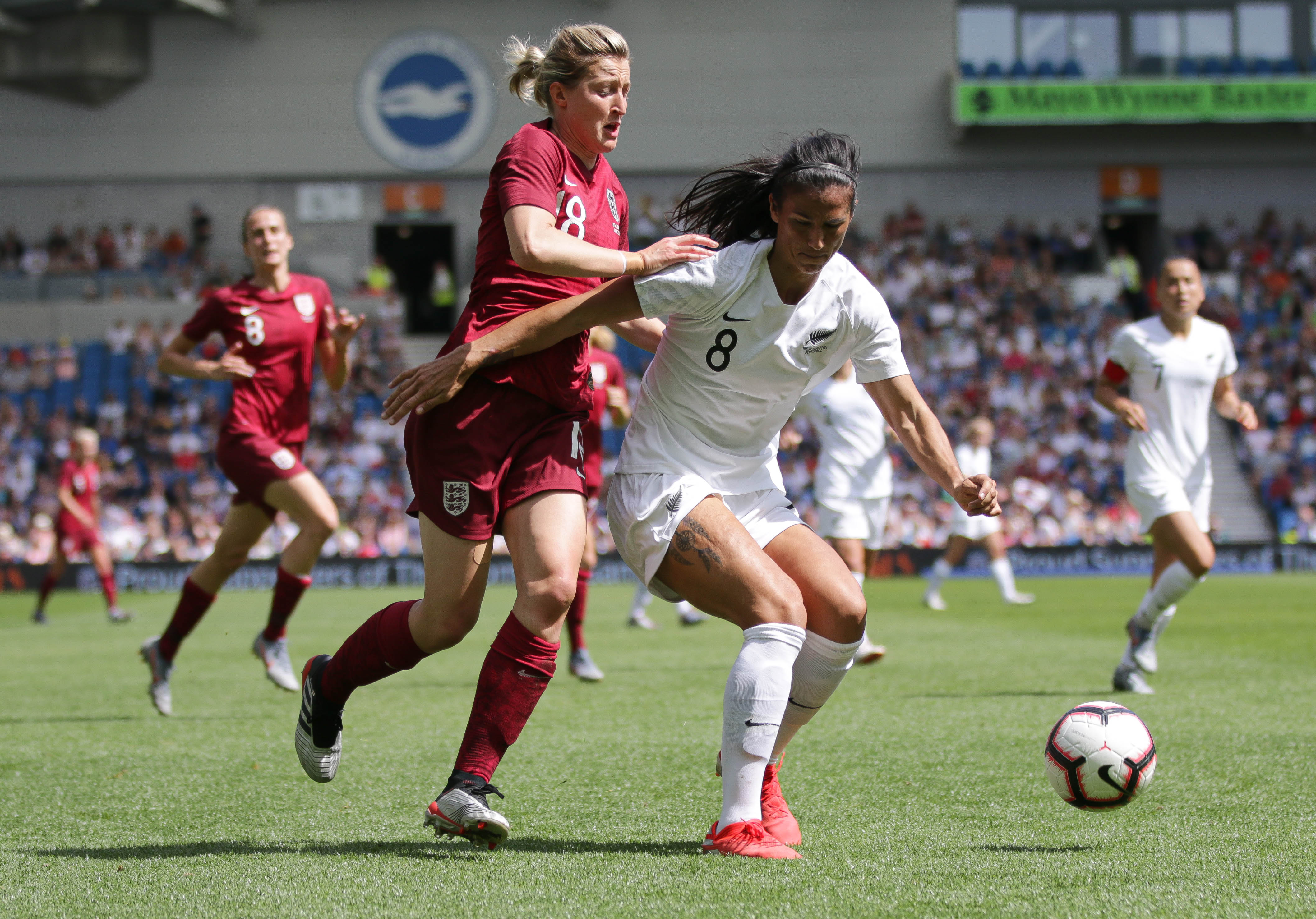 England Women 0 New Zealand Women 1 01 06 2019-1061.jpg